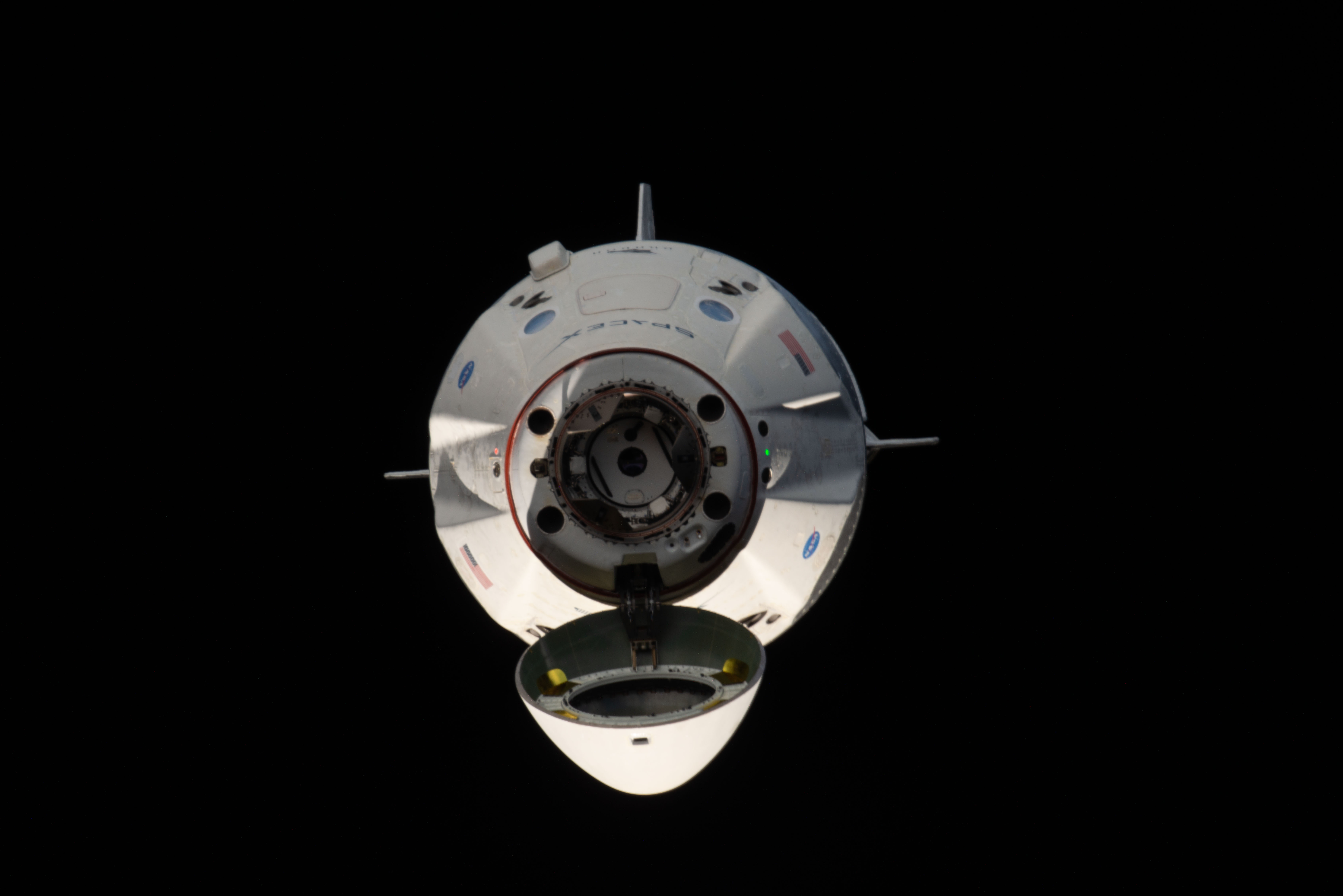 The uncrewed SpaceX Crew Dragon spacecraft is the first Commercial Crew vehicle to visit the International Space Station. Here it is pictured with its nose cone open revealing its docking mechanism while approaching the station's Harmony module. The Crew Dragon would automatically dock moments later to the international docking adapter attached to the forward end of Harmony.